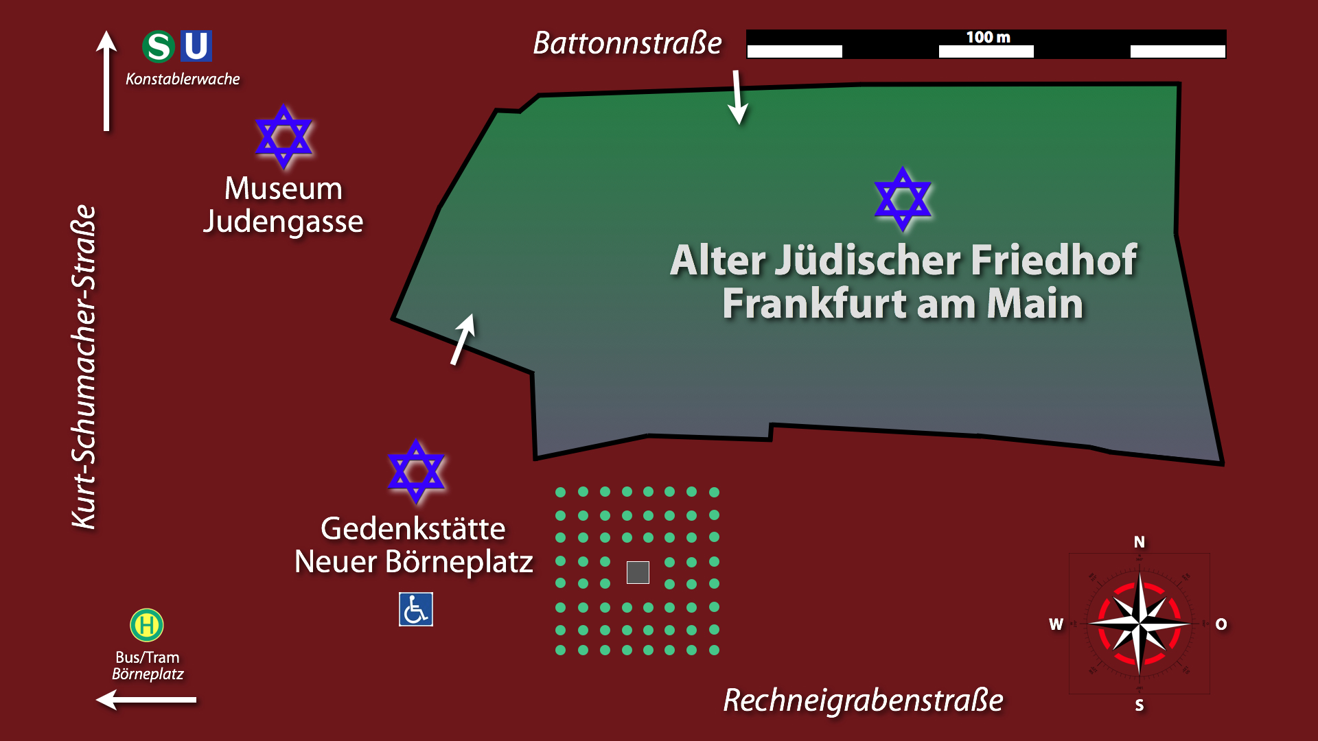 location sketch of the medieval Jewish cemetery in Frankfurt am Main, Hesse, Germany at Borneplatz